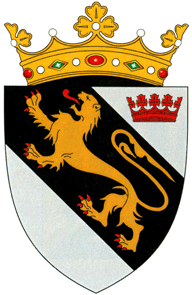 Coat of Arms of Rajon Leova